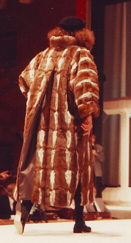 Canadian squirrel fur coat Entwurf und Gestaltung: Jürgen Bahls, Berlin